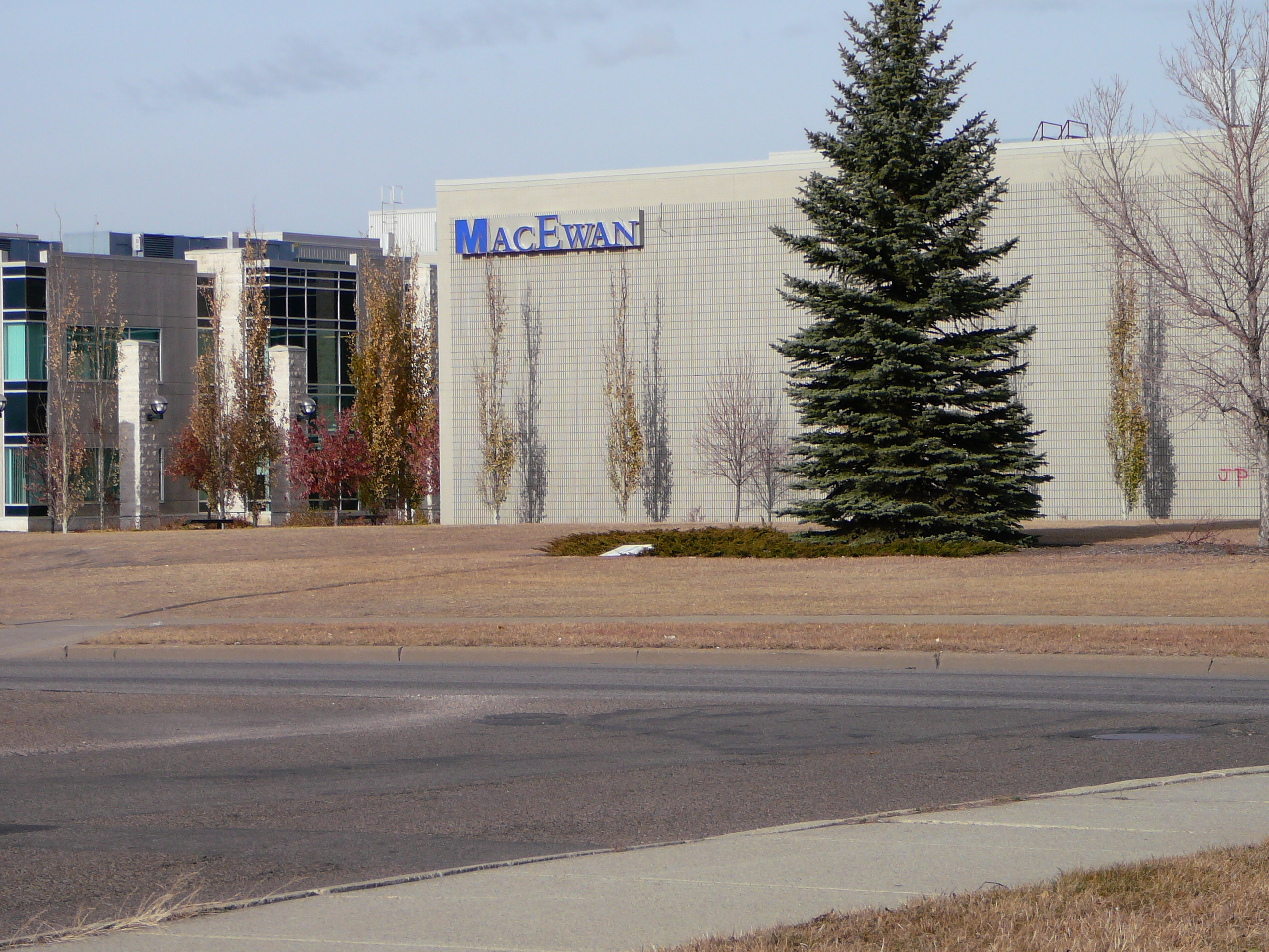 The MacEwan College Mill Woods Campus in the Lakewood area of Edmonton, Canada